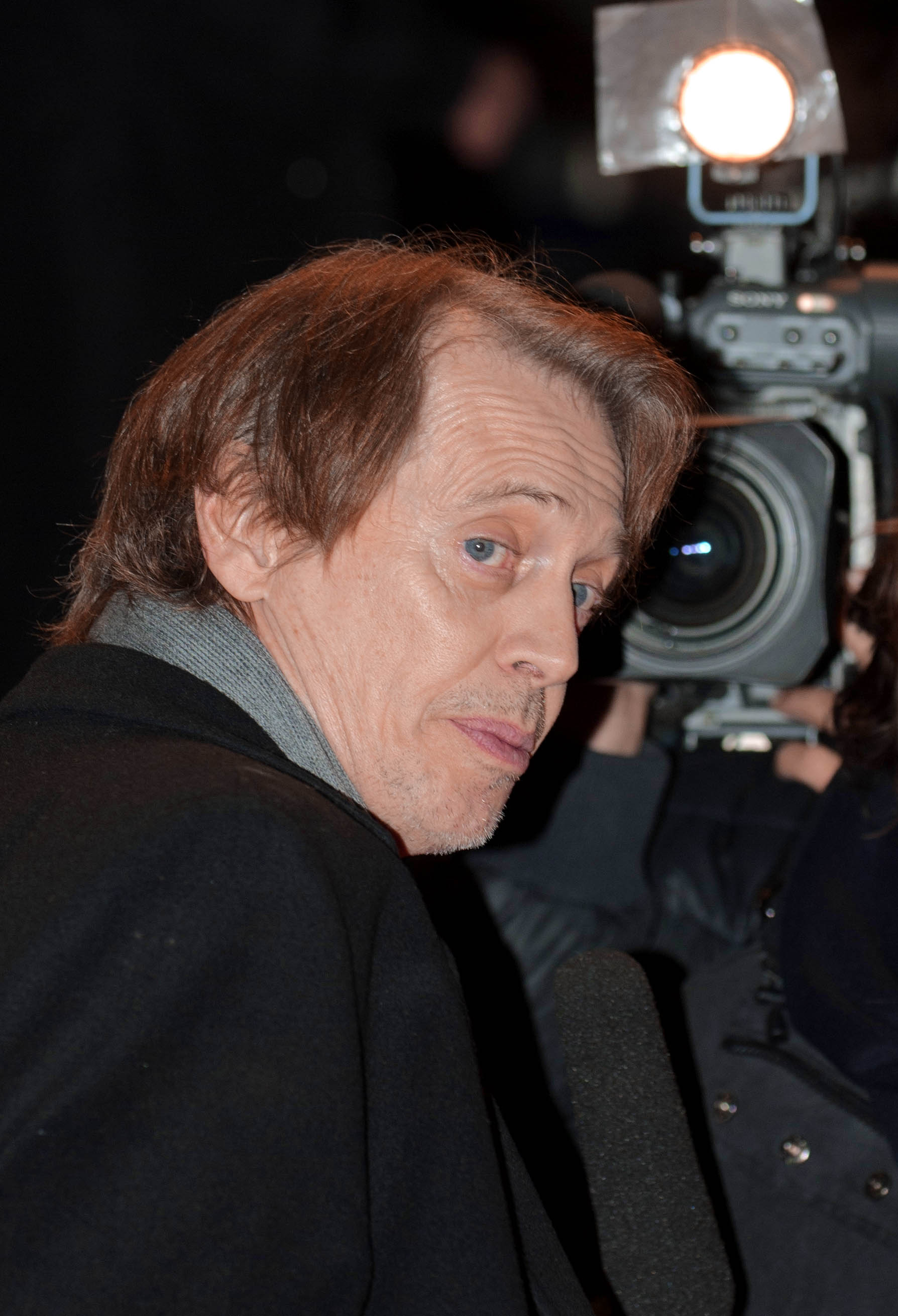 Actor Steve Buscemi, Premiere of the movie "John Rabe" at the Berlin Friedrichstadtpalast